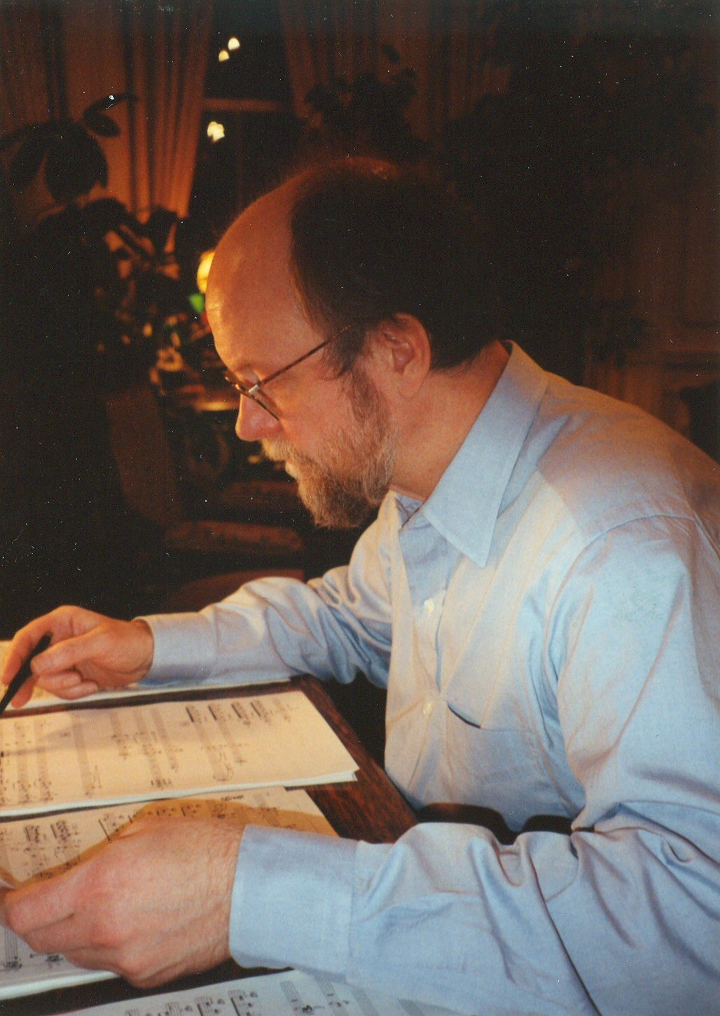 Charles Wuorinen, composer. Photo by Howard Stokar